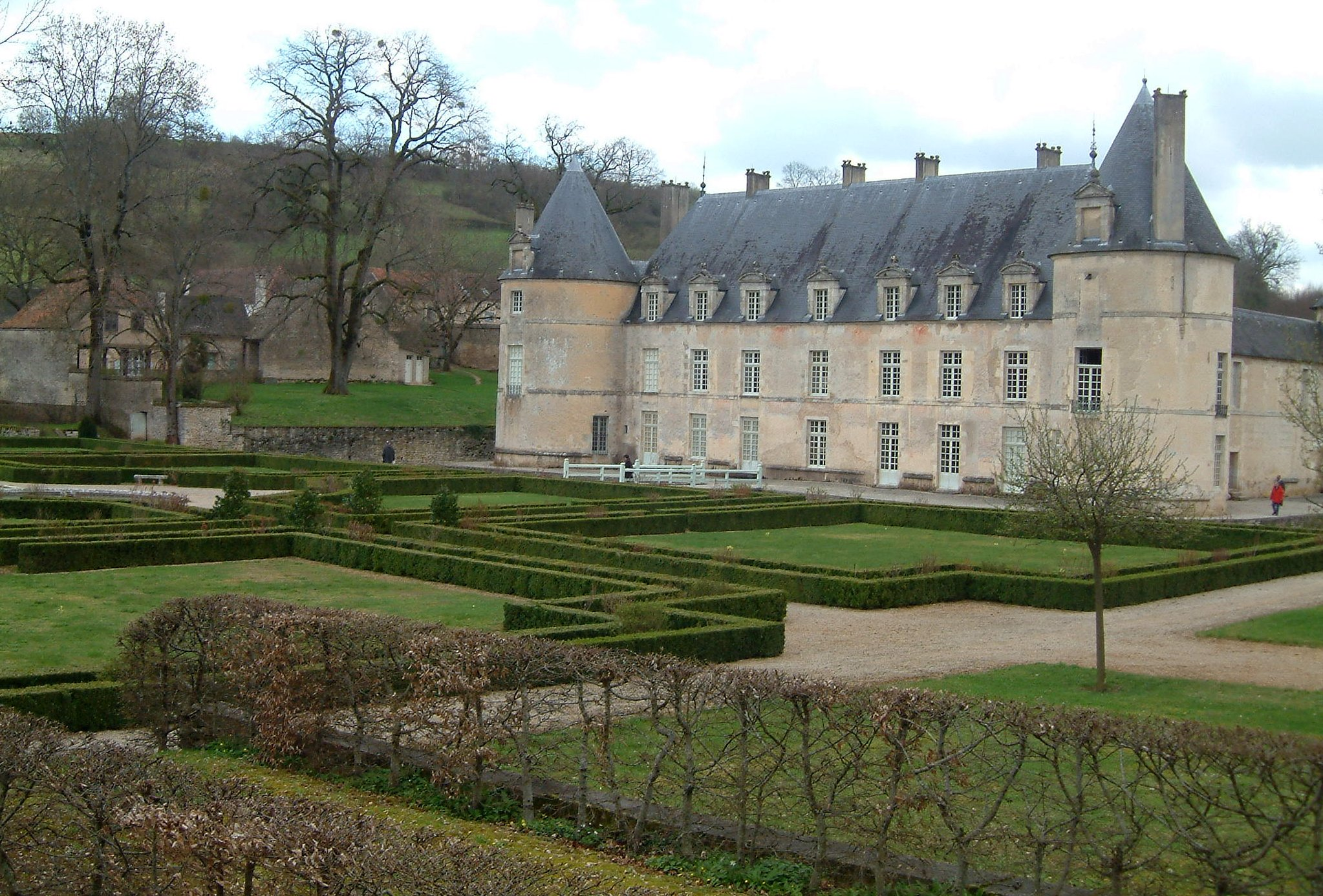 Chateau de Bussy-Rabutin, Bussy le Grand, Bourgogne, France